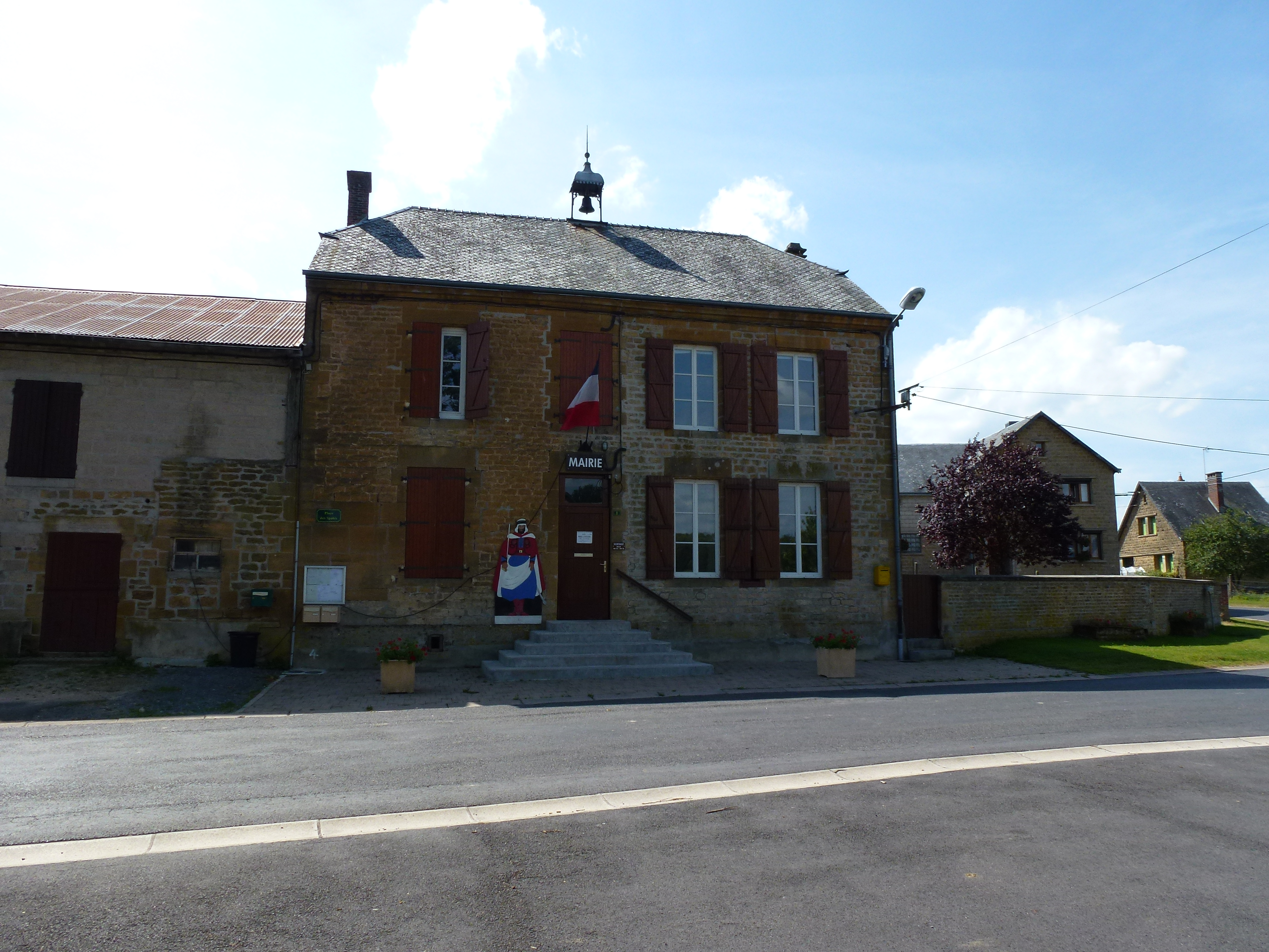 La Horgne (Ardennes) mairie et musée des Spahis